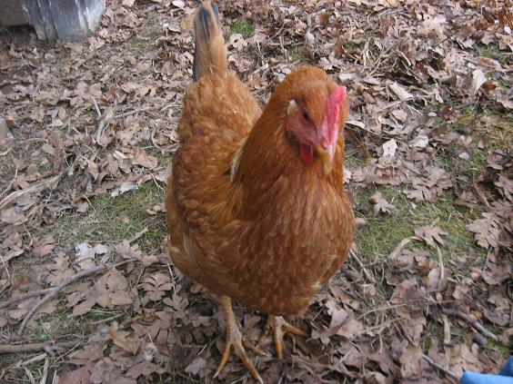 New Hampshire Red hen looking for food